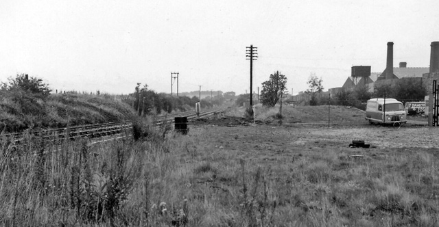 Site of Boughton Station (Nottinghamshire). View eastward, towards Lincoln; ex-GC (LD&EC) Lincoln - Chesterfield line. The station was closed on 19/9/55 when the passenger service ceased, but remained open for seasonal holiday trains until 5/9/64 and for goods until 4/1/65. The line was remained open until recently for coal traffic to High Marnham Power Station.